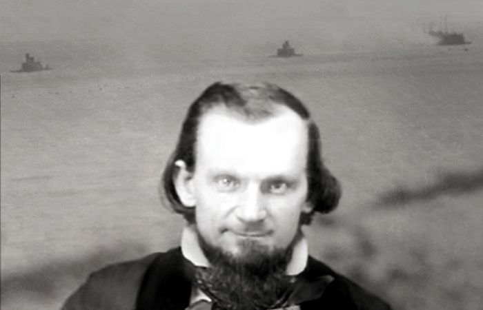 George Smith Cook, derivative, cropped from original, daguerreotype self portrait